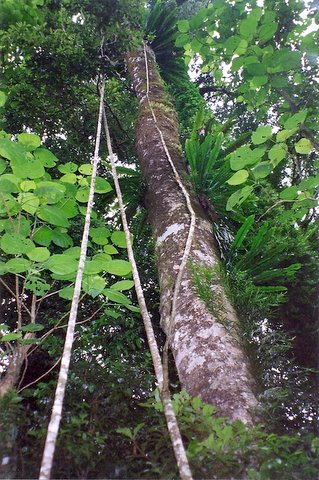 sub tropical jungle at League Scrub (Gumbayngirr State Conservation Area) including Yellow Carabeen, Stinging Tree, Pothos, birds nest fern, and Piper Vine.